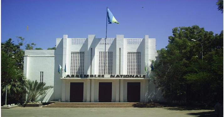 Old Building of the Assemblee nationale